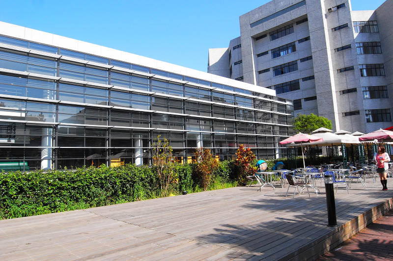 Yuan Ze University Library